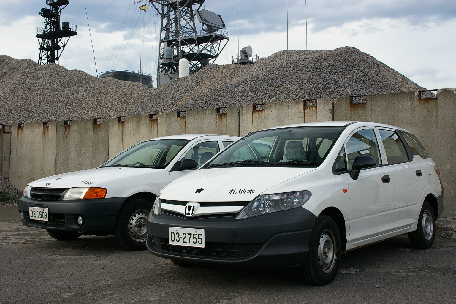 JGSDF Gyoumusha 2go Nissan AD & Honda Partner.